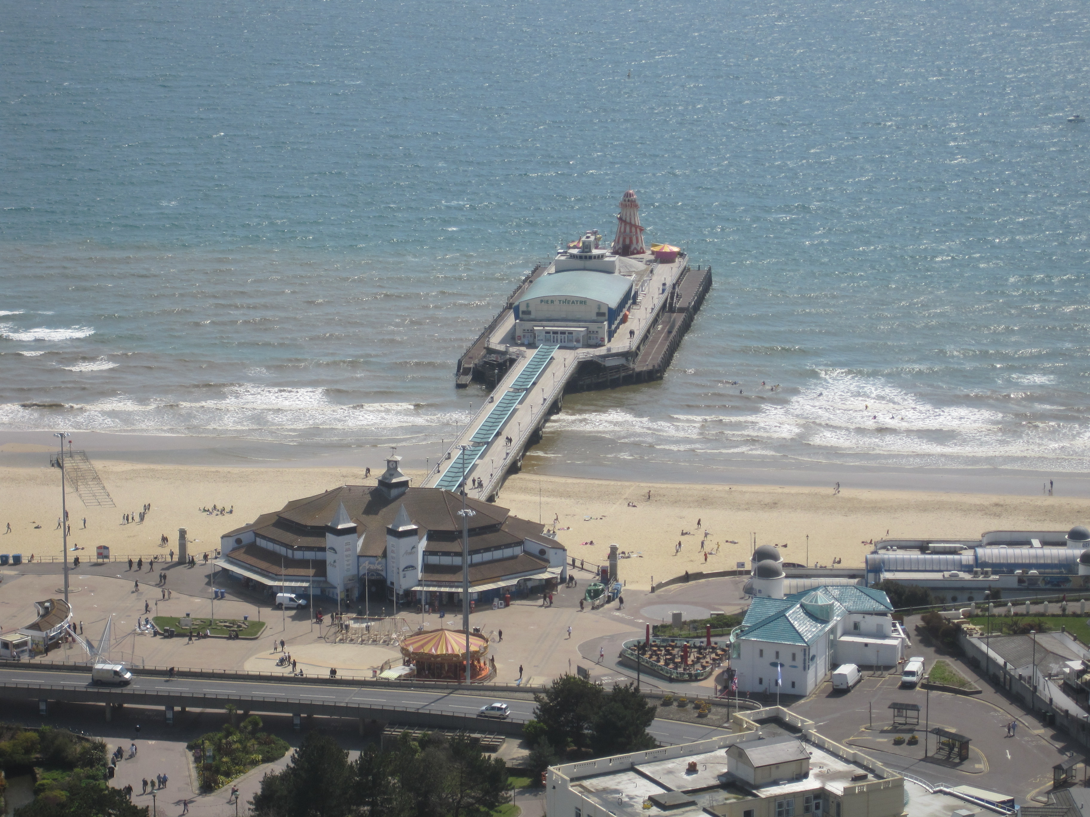 Bournemouth Pier